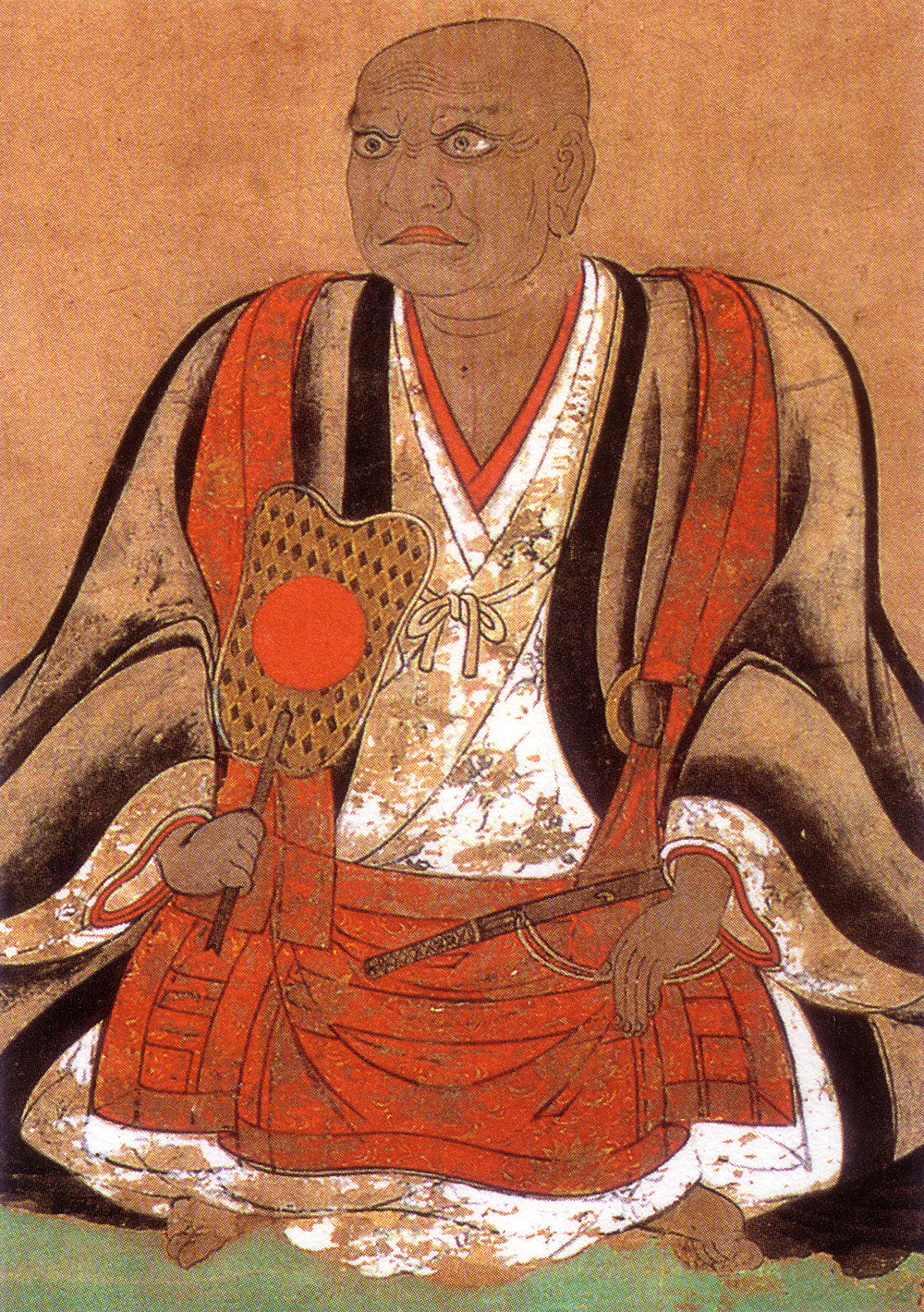 Painting of Tachibana Dosetsu, 16th century.